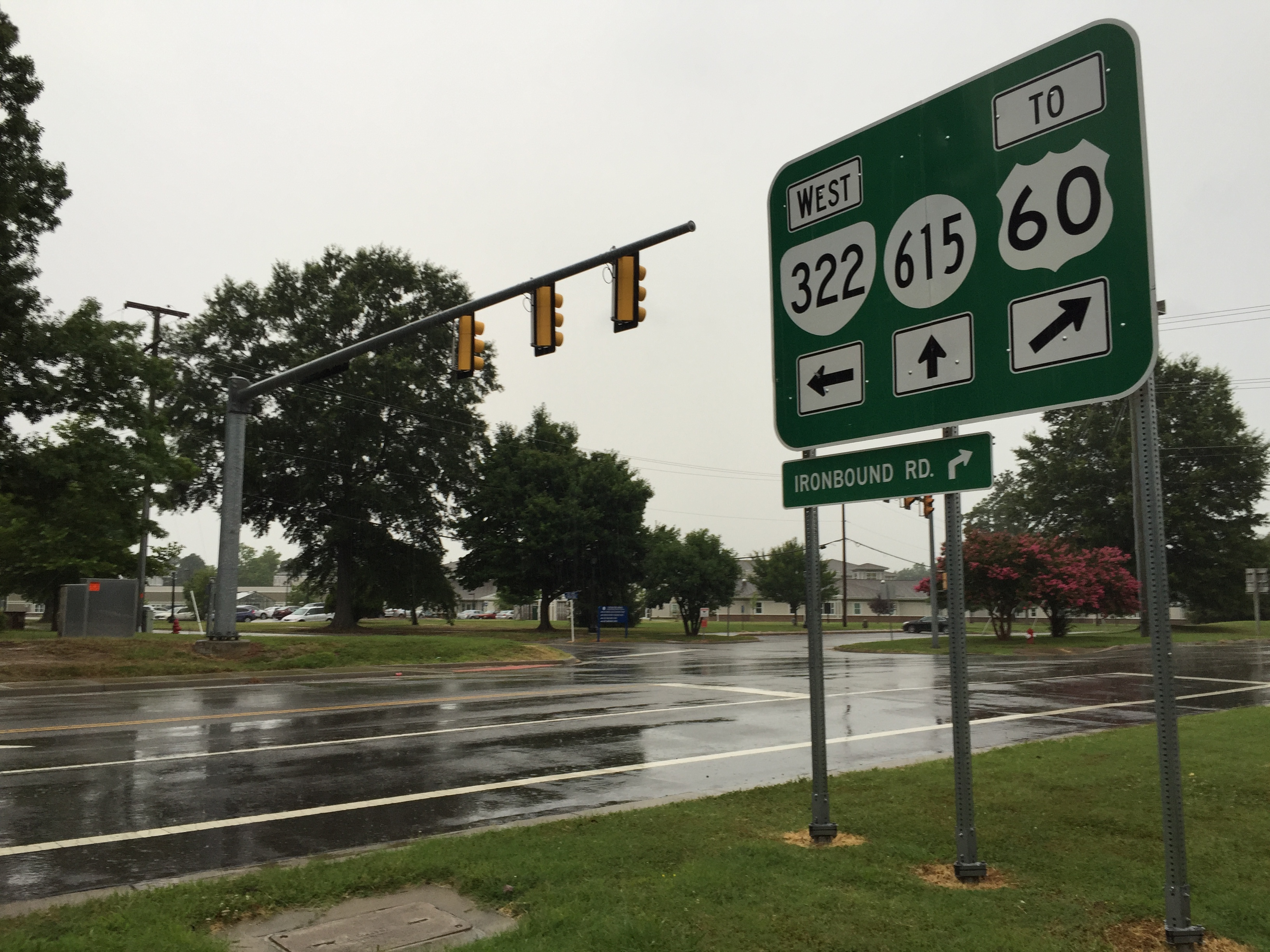 View west along Virginia State Route 322 (Galt Drive) at Ironbound Road and Depue Drive (Virginia State Secondary Route 615) at the Eastern State Hospital just northwest of Williamsburg in James City County, Virginia